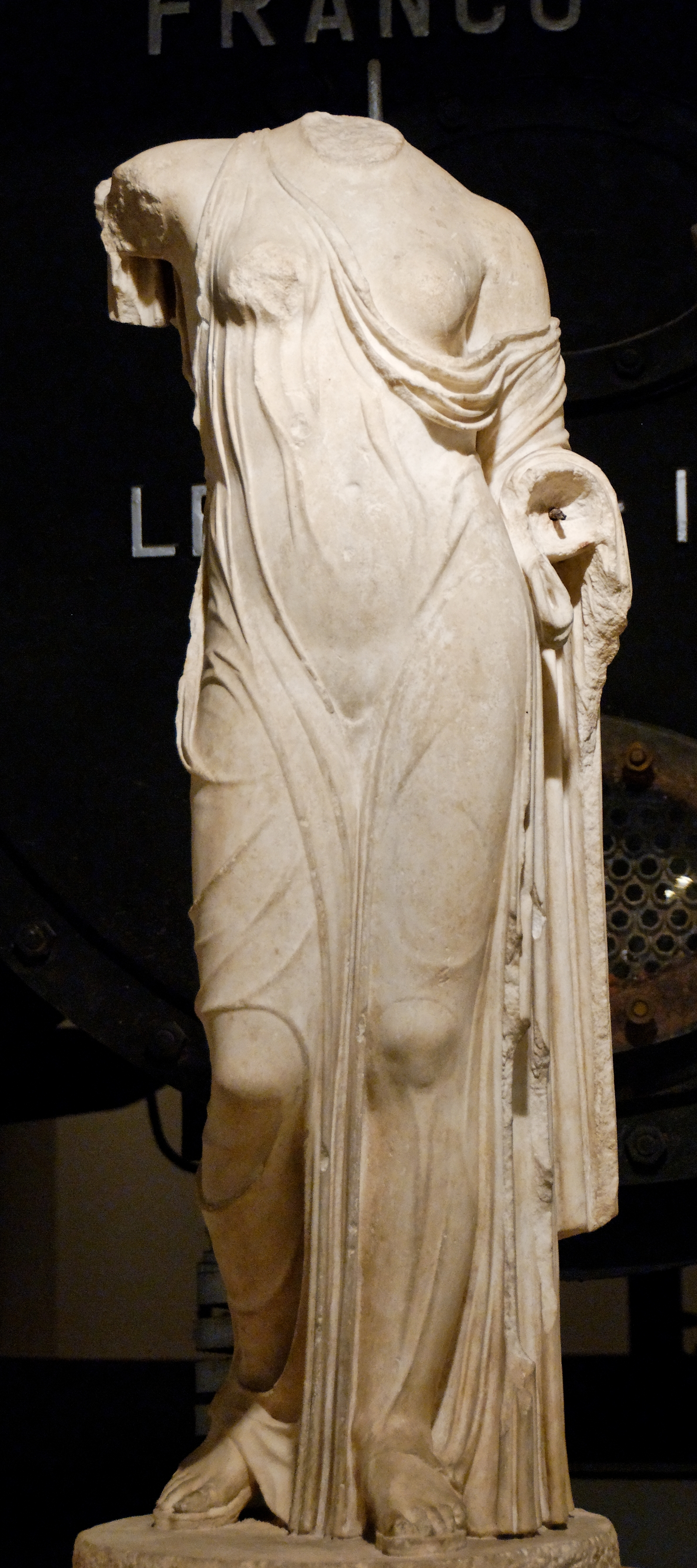 Aphrodite of the Venus Genetrix type. Pentelic marble, Roman copy after a Greek original of the 5th century BC. From the Esquiline Hill, Rome.